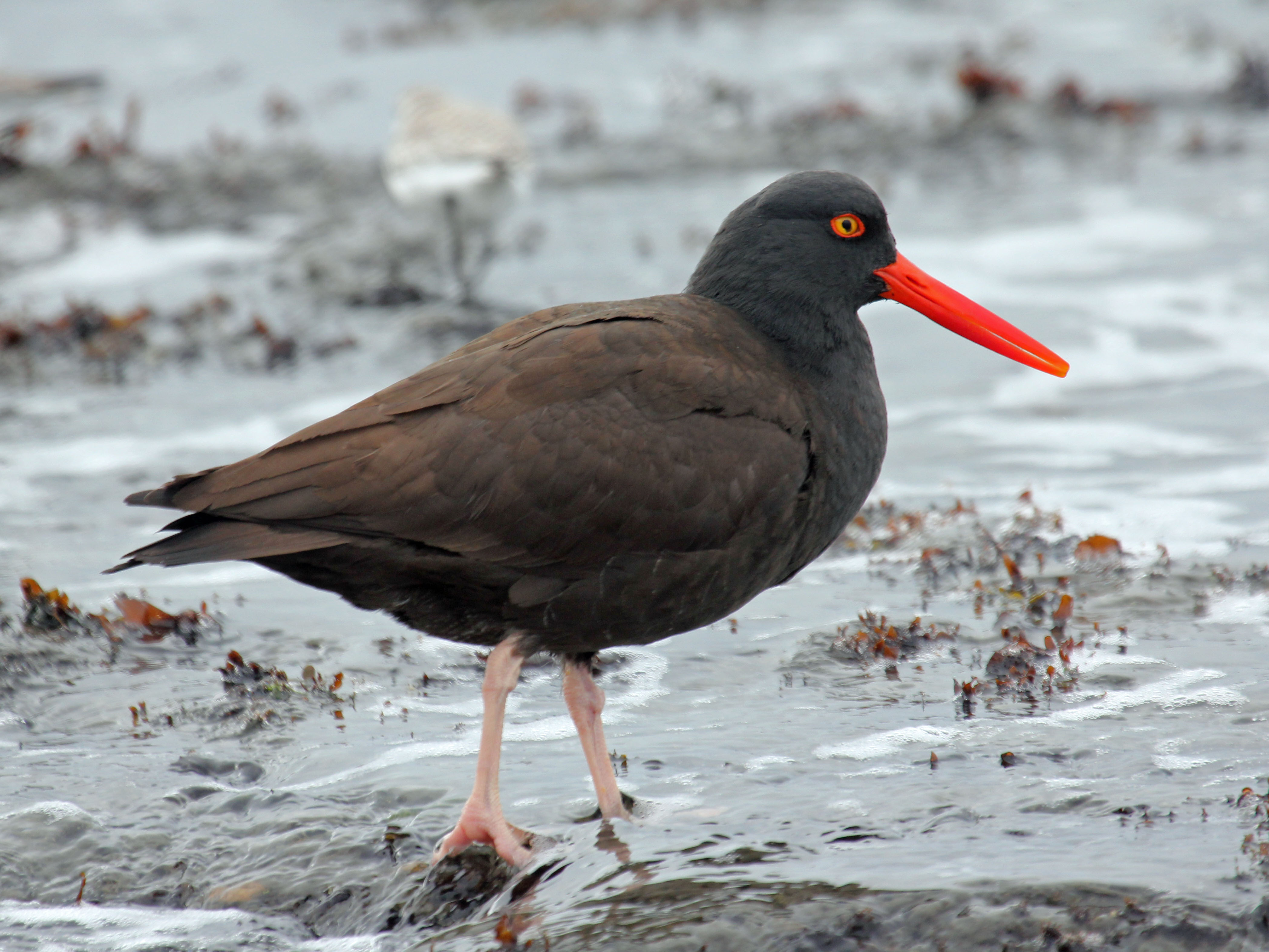 Black Oystercatcher, also American Black Oystercatcher (Haematopus bachmani) - Half Moon Bay, California